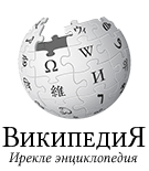 Wikipedia logo 2.0